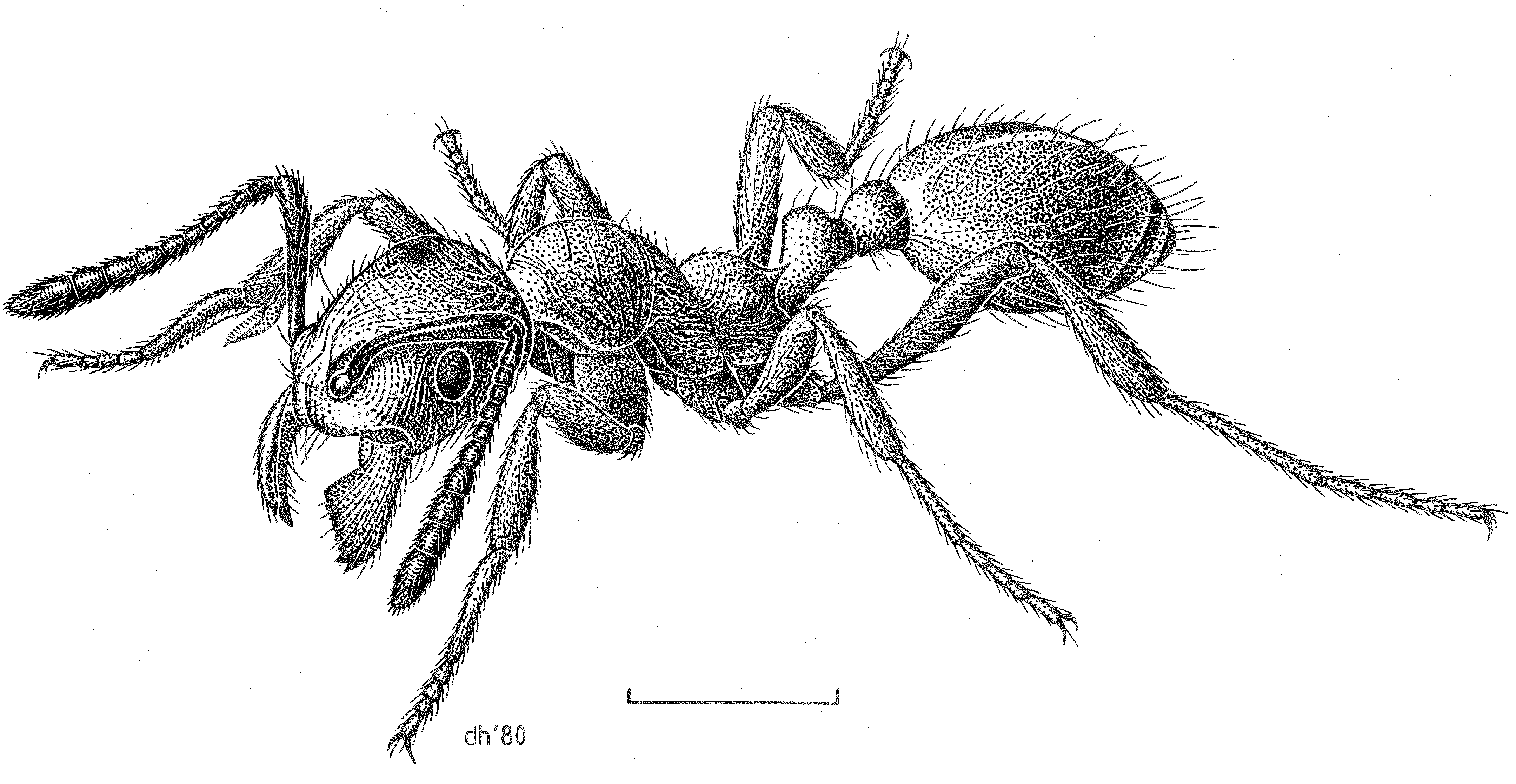 (Hymenoptera: Formicidae) Huberia striata illustrated by Des Helmore.